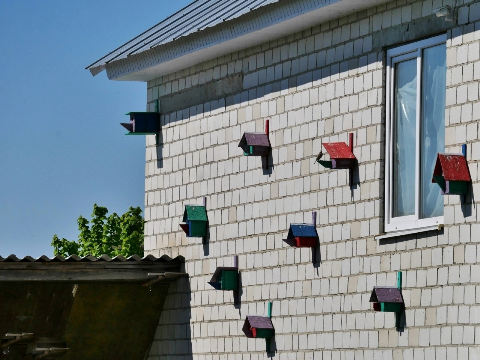 Artifical nests for the House Sparrow in Belarus (Passer domesticus), Photo: Elke Brüser